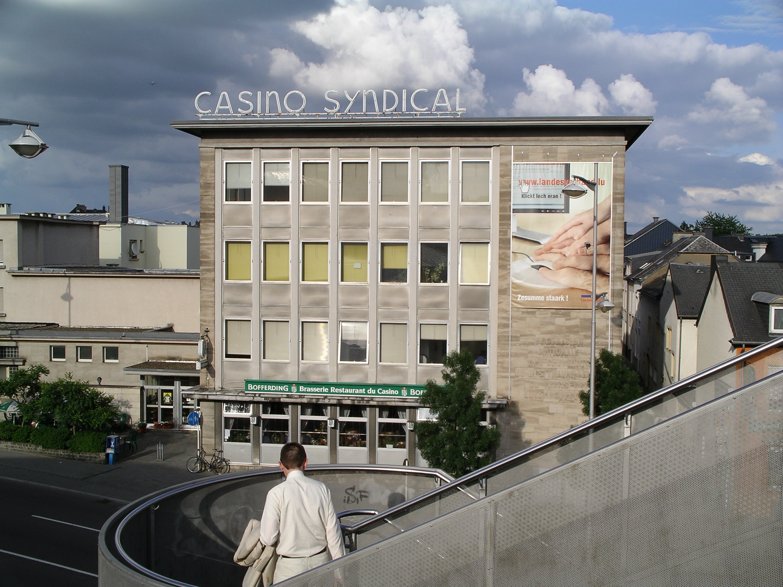 Luxembourg City, "Casino syndical", railway trade union, at Luxembourg-Bonnevoie